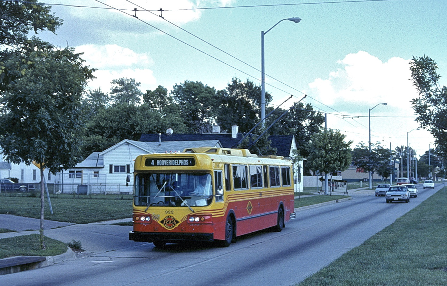 Trolleybus 922 of MVRTA (now GDRTA), of Dayton, Ohio, northbound on James H. McGee Blvd. at Edison Street, on route 4-Hoover, in 1996. It is a 1977 Flyer E800 trolleybus. At this time it was wearing the red-and-yellow paint scheme RTA had adopted – for trolleybuses only - in 1993 but had already stopped applying in 1995.